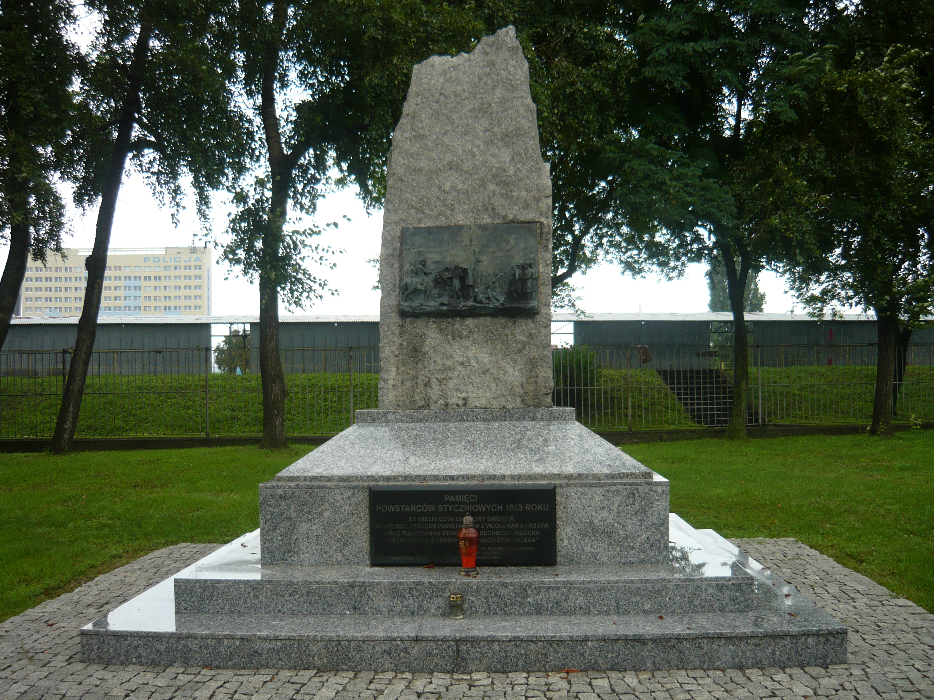 The monument of January Uprisingers and Stanislao Bechi in place of executions in Włocławek. There are two plaques on the left and right side of monument about Stanislao Bechis execution. On the bas-relief is Bechis execution scene.